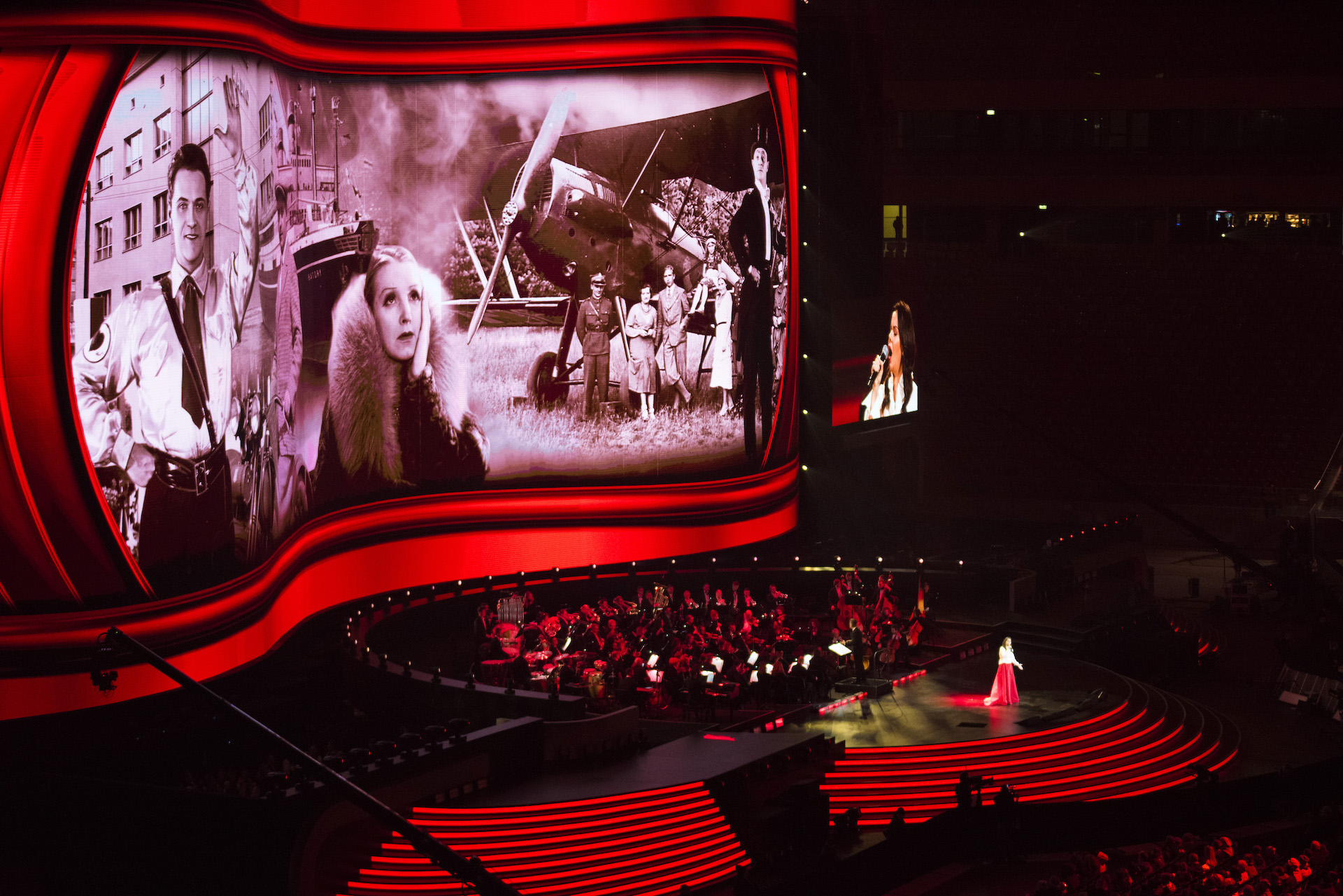 Concert for Independence. November 10, 2018. Warsaw. Poland.